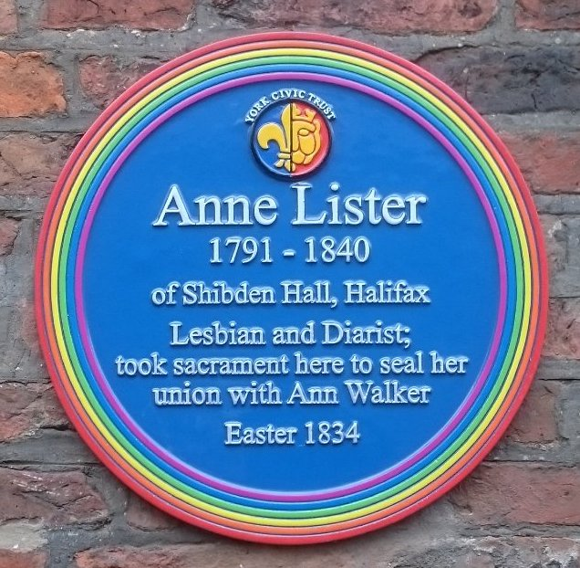 The blue plaque has a rainbow border and is inscribed: "Anne Lister 1791-1840 of Shibden Hall, Halifax Lesbian and Diarist; took sacrament here to seal her union with Ann Walker Easter 1834"